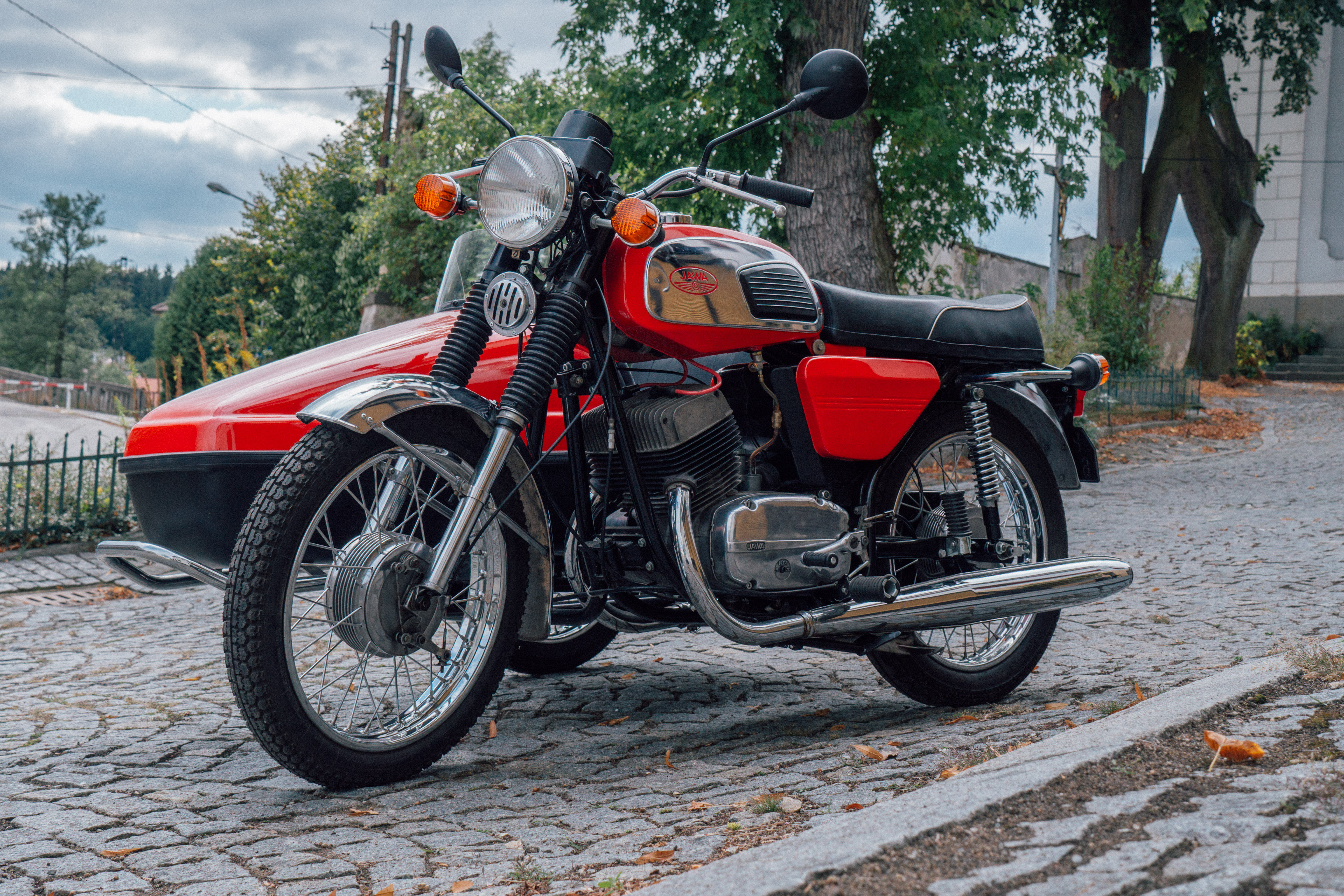 I was shooting and beautiful village Mirovice on south of Czech Rep.